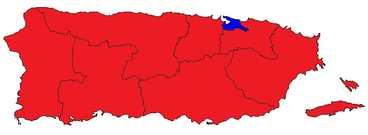 Mapa de Resultados de los Distritos Senatoriales de las Eleccciones Generales de Puerto Rico de 1972